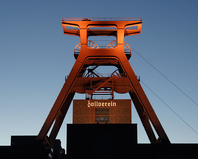 World Heritage Site Zeche Zollverein in Essen, Germany.